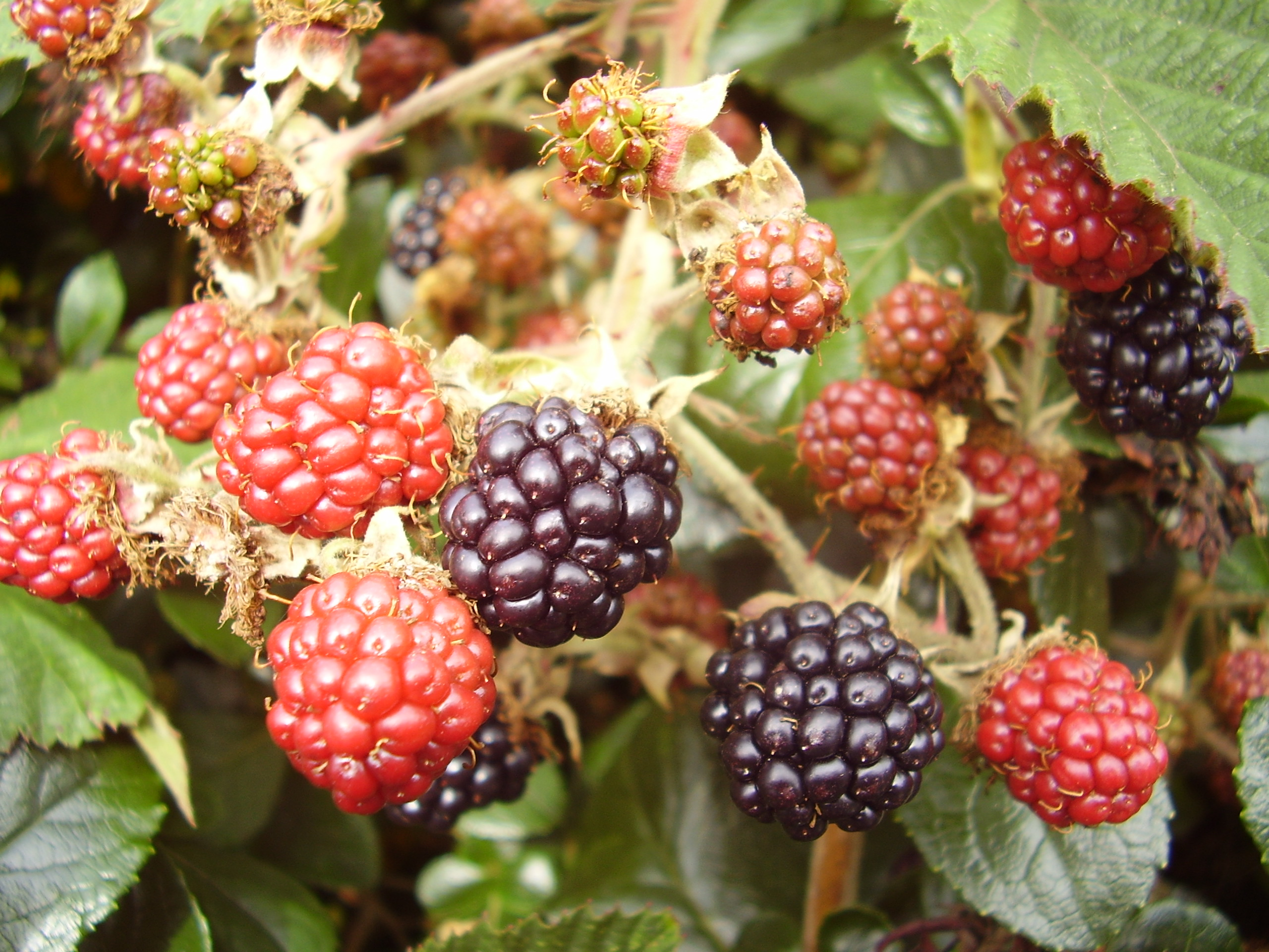 Photo of Common Blackberry (Rubus Fruticosus), showing the ripening fruit, at an early August stage. Taken on The Garrison, St Mary's, Isles of Scilly, 28 miles off Land's End, UK. Taken in Super Macro mode using an Olympus X-705 digital camera.